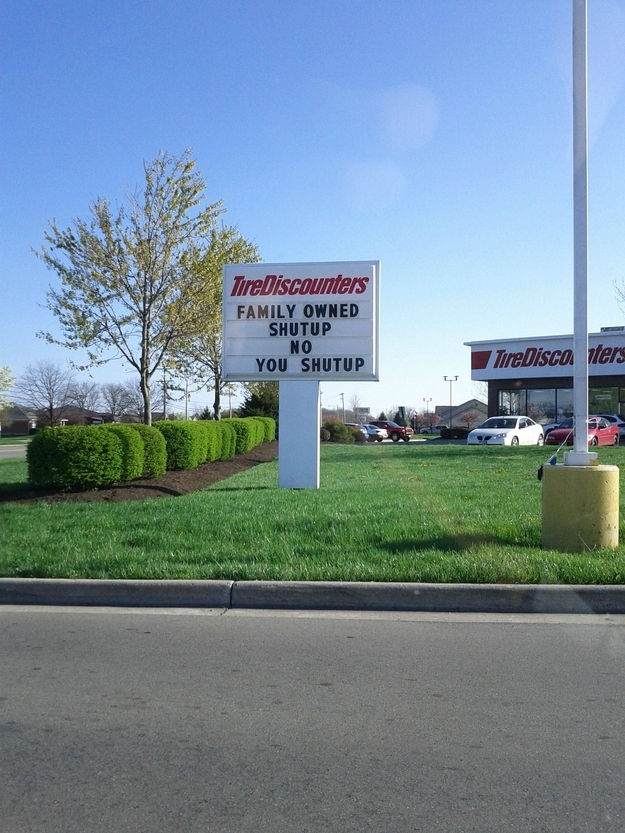 Funny sign out in front of a Tire Discounters store.